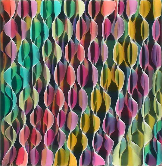 Untitled, 2015, ink and acrylic polymers on wood panel, 24 x 23 1/2 inches